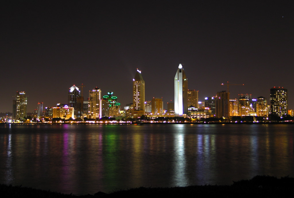 Downtown San Diego Skyline at night, viewed from Coronado towards Downtown, using: Aperture: f2.2 2 mm